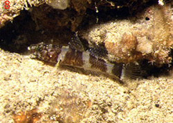 Picture of Didogobius splechtnai